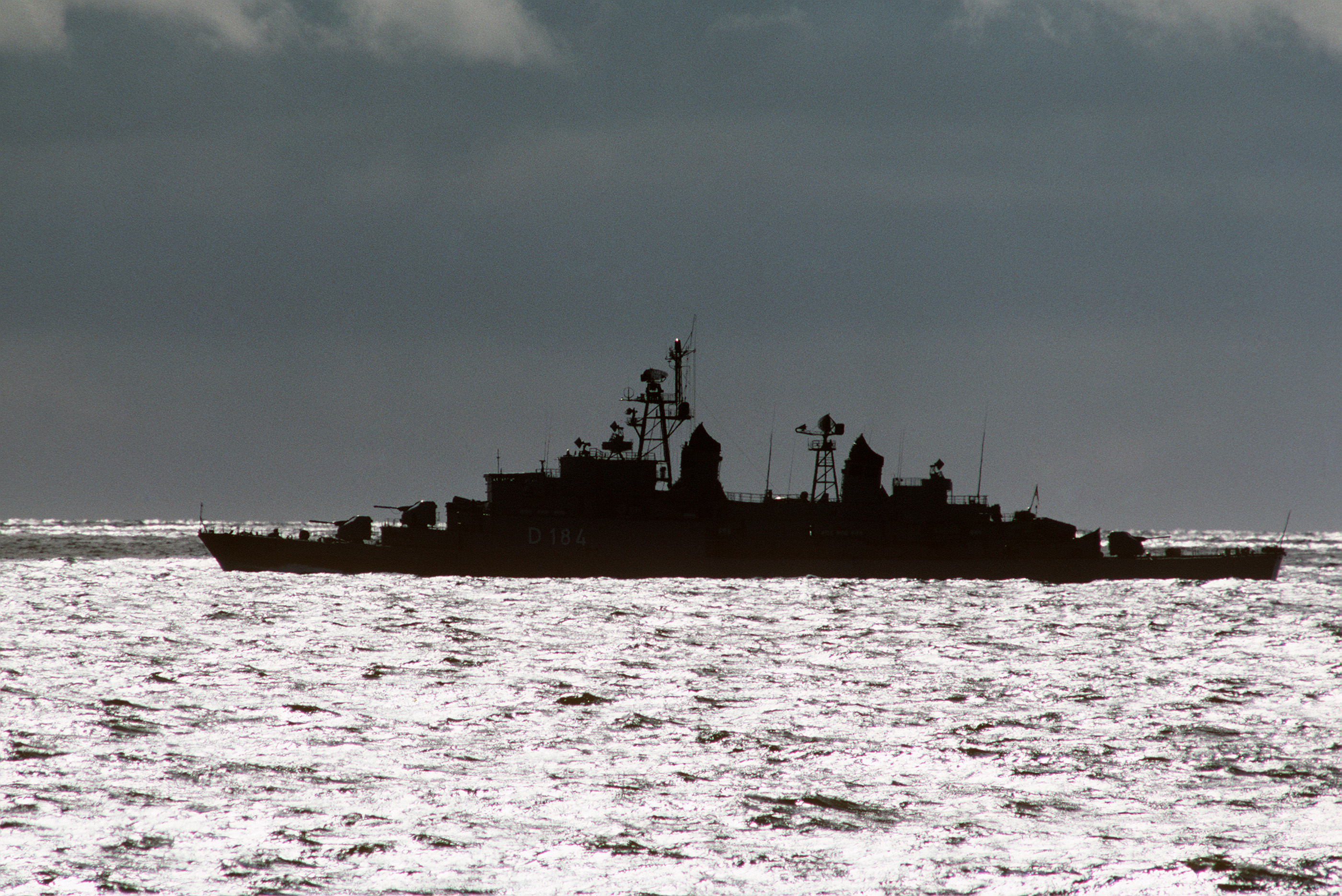 A silhouetted port beam view of the West Germany destroyer FGS HESSEN (D 184) during NATO Exercise NORTHERN WEDDING 86.